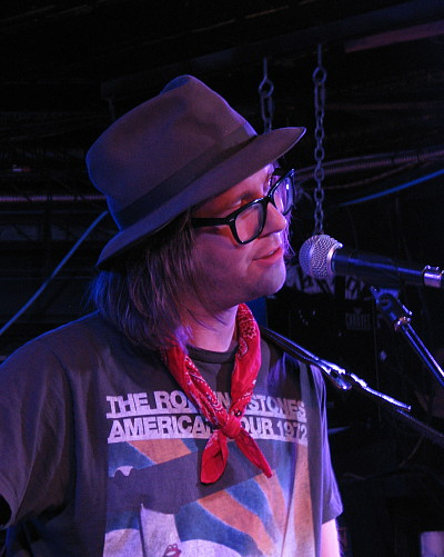 Singer-songwriter, guitarist, and producer Aaron Lee Tasjan from New Albany, Ohio, on stage at The Saint, in Asbury Park, NJ USA on July 8, 2014. Photo by LHCollins. Tasjan has worked and toured with Peter Yarrow, The New York Dolls, BP Fallon, Alberta Cross, Freedy Johnston, Semi Precious Weapons, and Drivin' N' Cryin'.